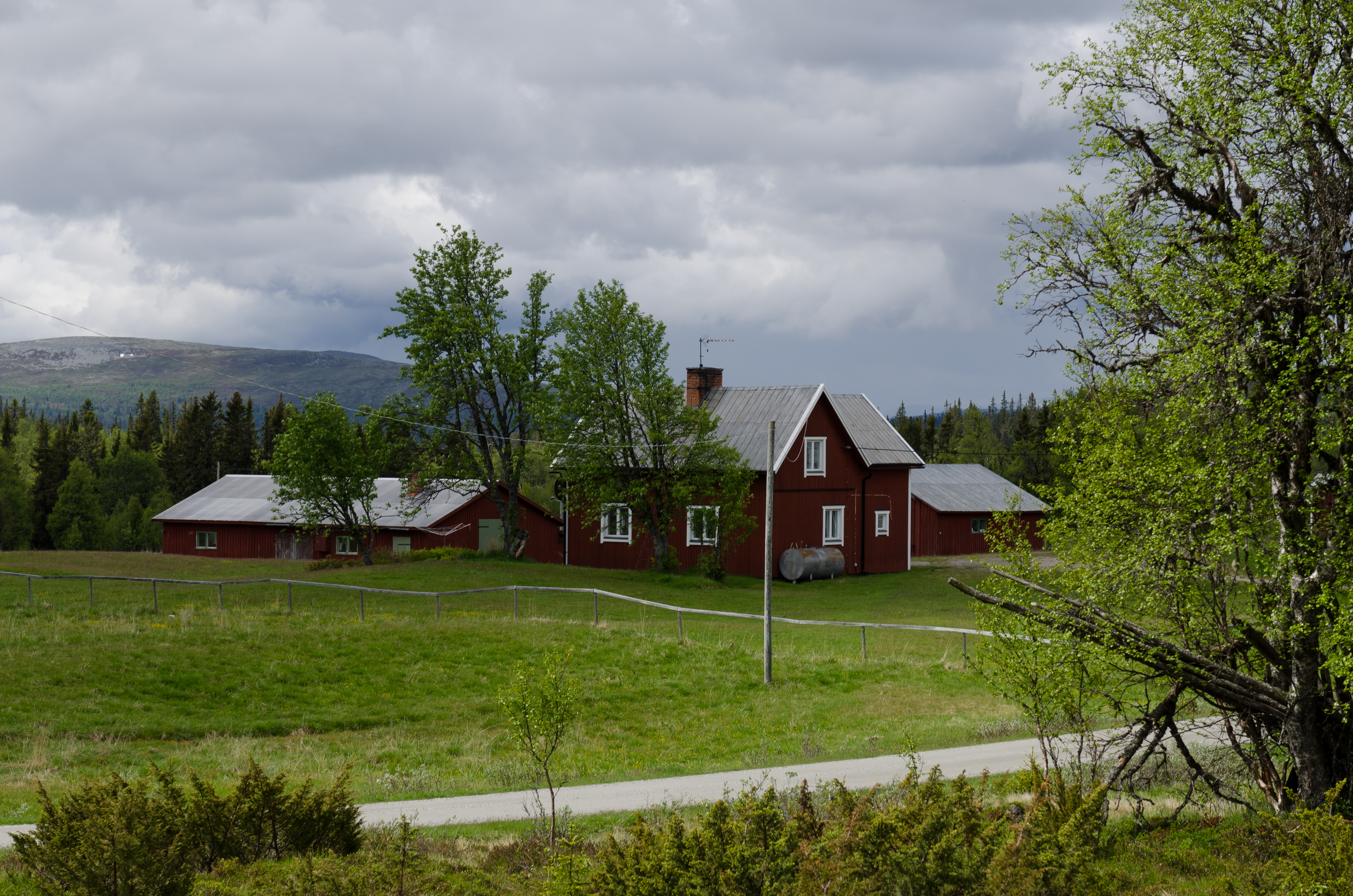 Old farm in Högvålen. At 835 metres (2738 feet) above sea level, Högvålen is Sweden's highest continuously inhabited village.